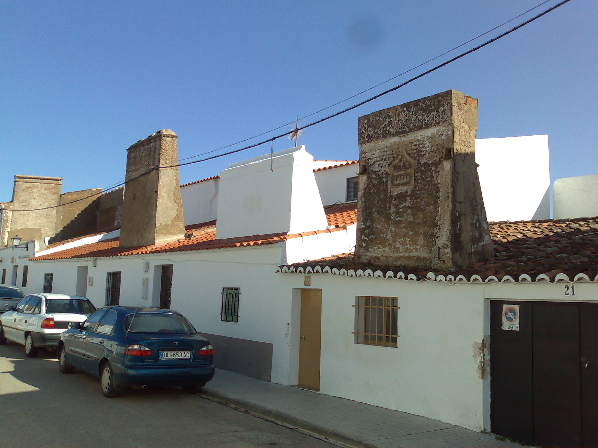 São Jorge da Lor (Olivença)